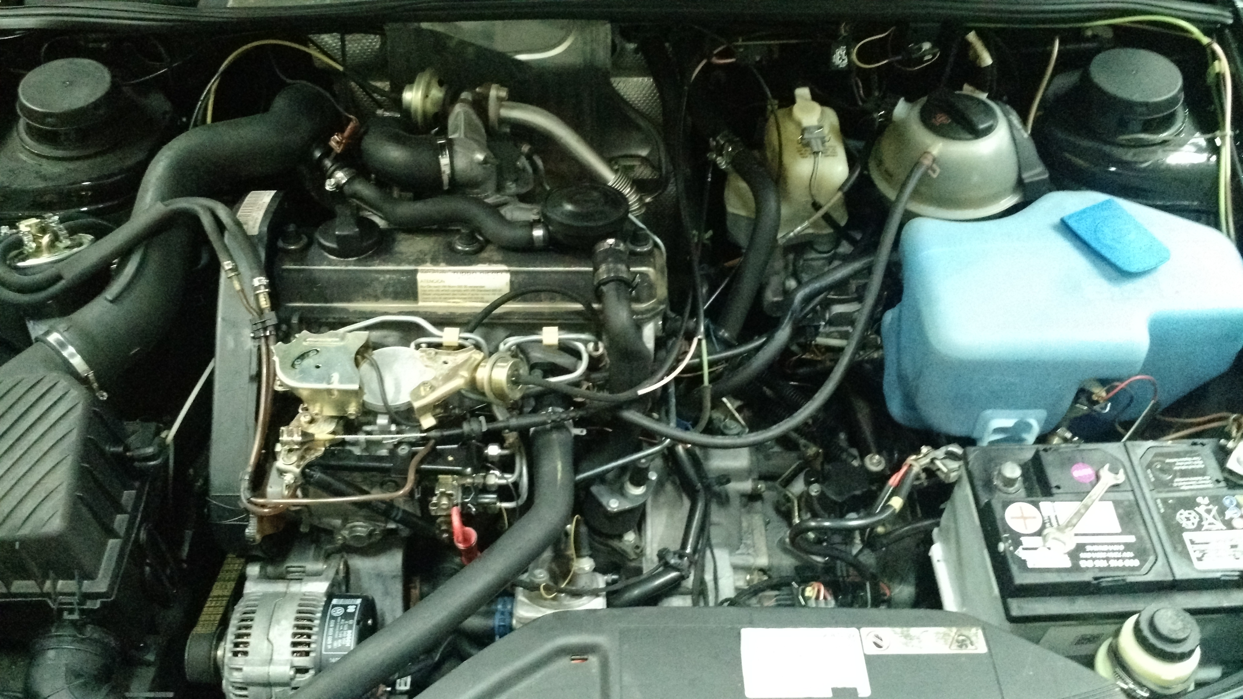 Picture of a 1.9L AAZ turbo diesel in a 1993 Passat. The injection pump has been changed to a 1Y pump though the turbo intake piping can be clearly seen confirming this is an AAZ. The engine is mated to an 02A transverse gearbox.